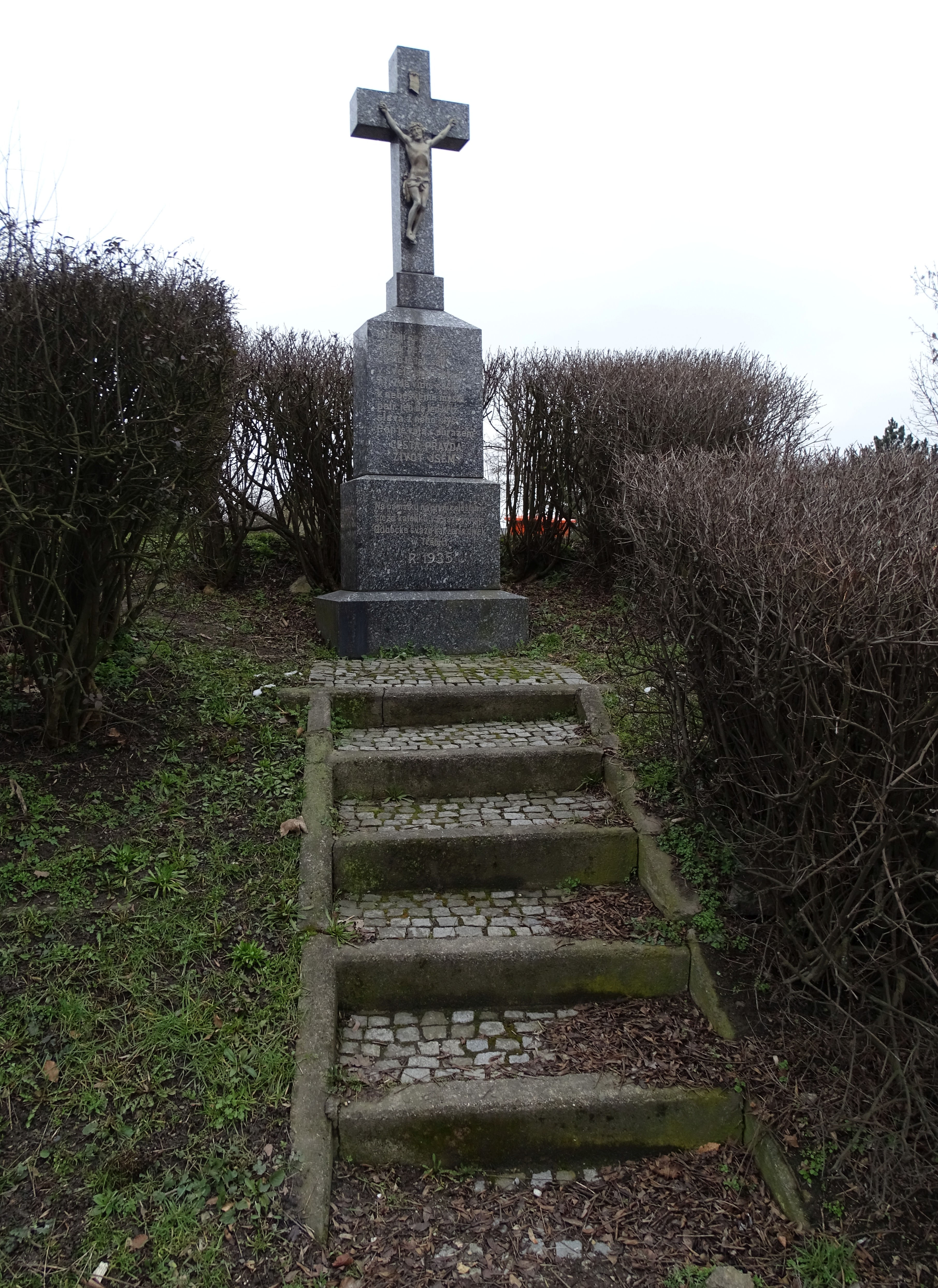 Třebíč-Podklášteří, Třebíč District, Vysočina Region, Czechia, 9. května street, a cross.